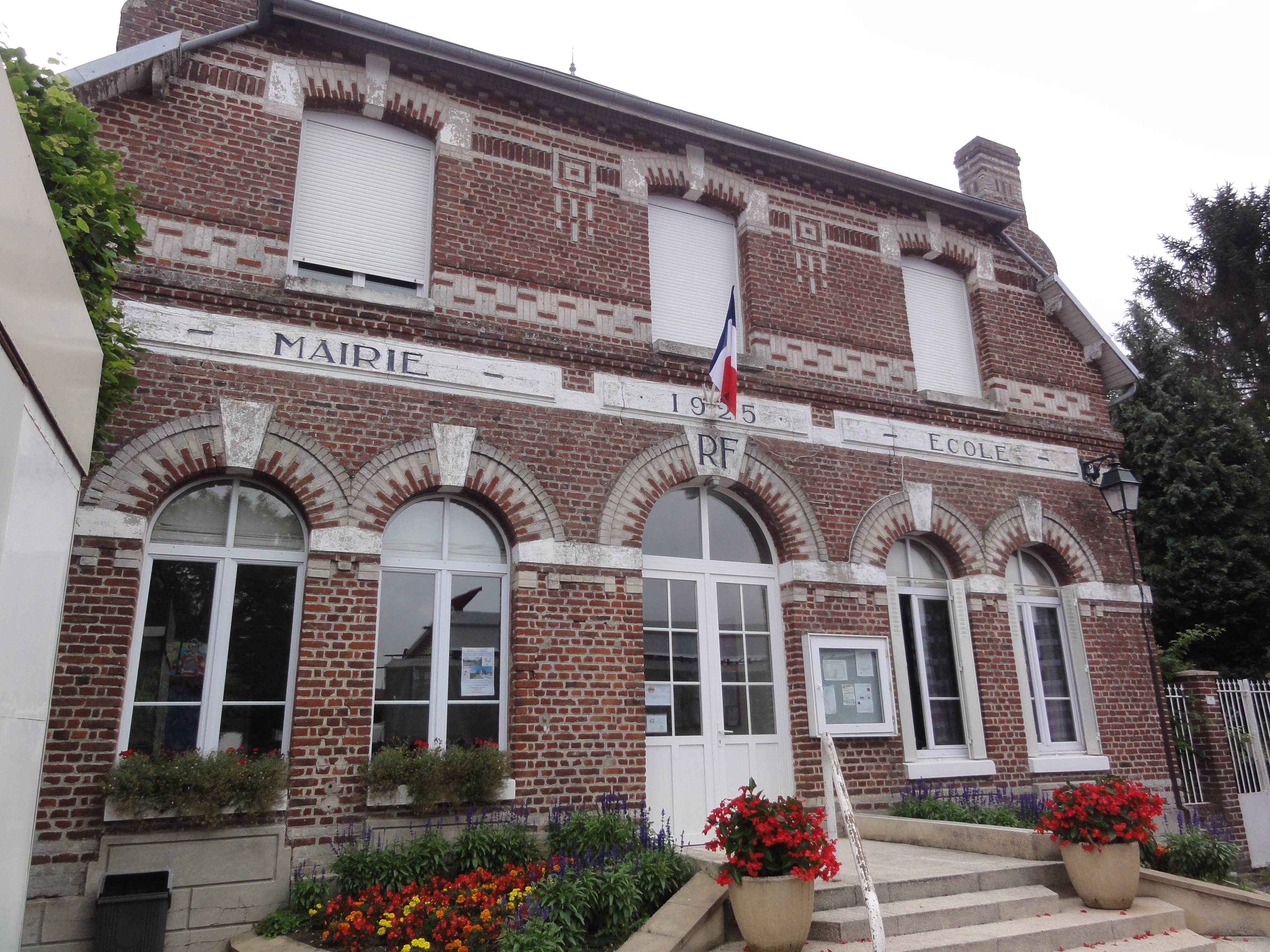 Beauvois-en-Vermandois (Aisne) mairie-école